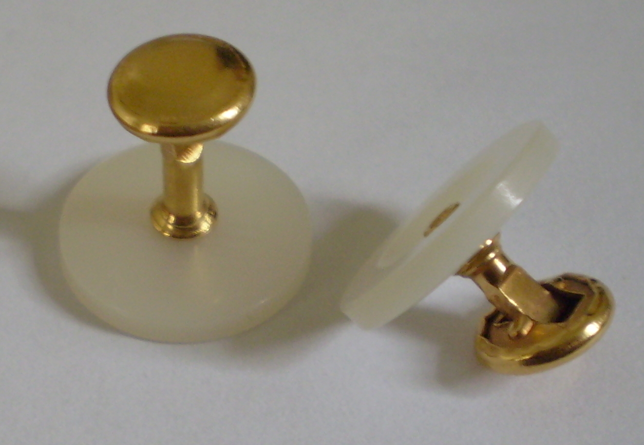 A pair of plastic and brass collar studs; the longer one on the left goes on front